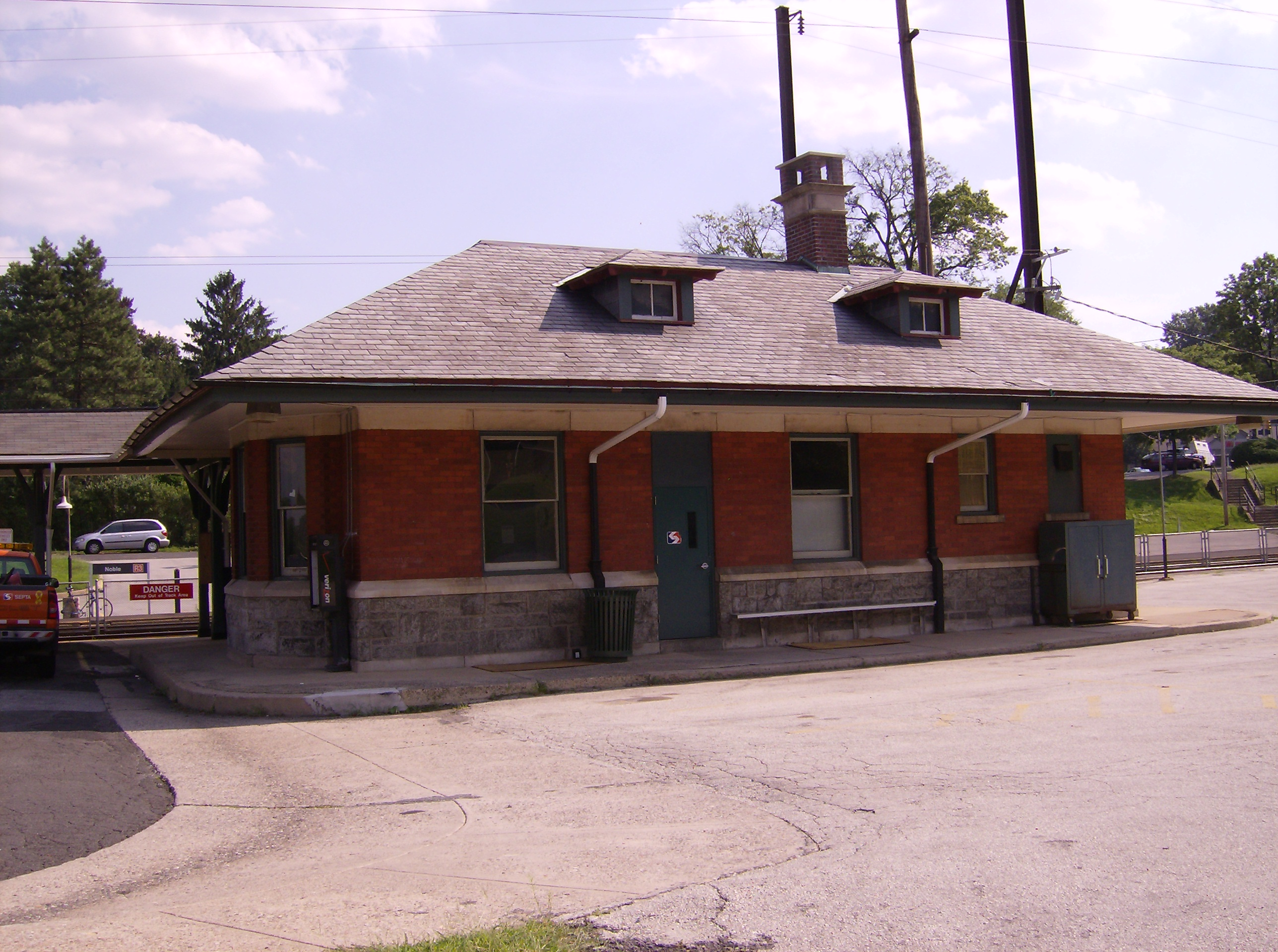 The 1901-built Noble SEPTA Regional Railroad station, originally built by the Reading Railroad.